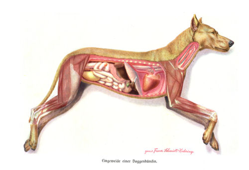 Dog anatomy. Internal organs and muscles of legs.